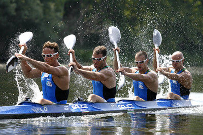 K4 1000 Beijing 2008